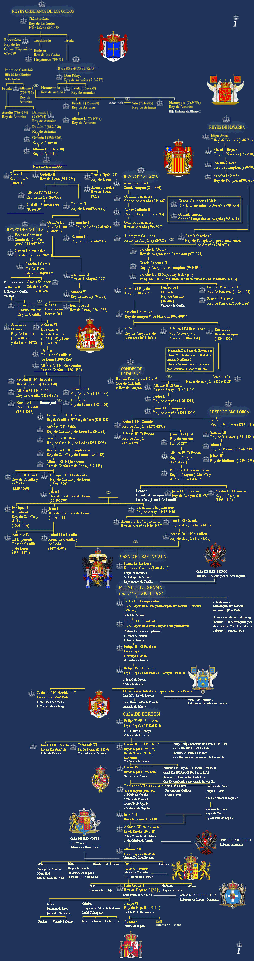 Tree of the spanish monarchy